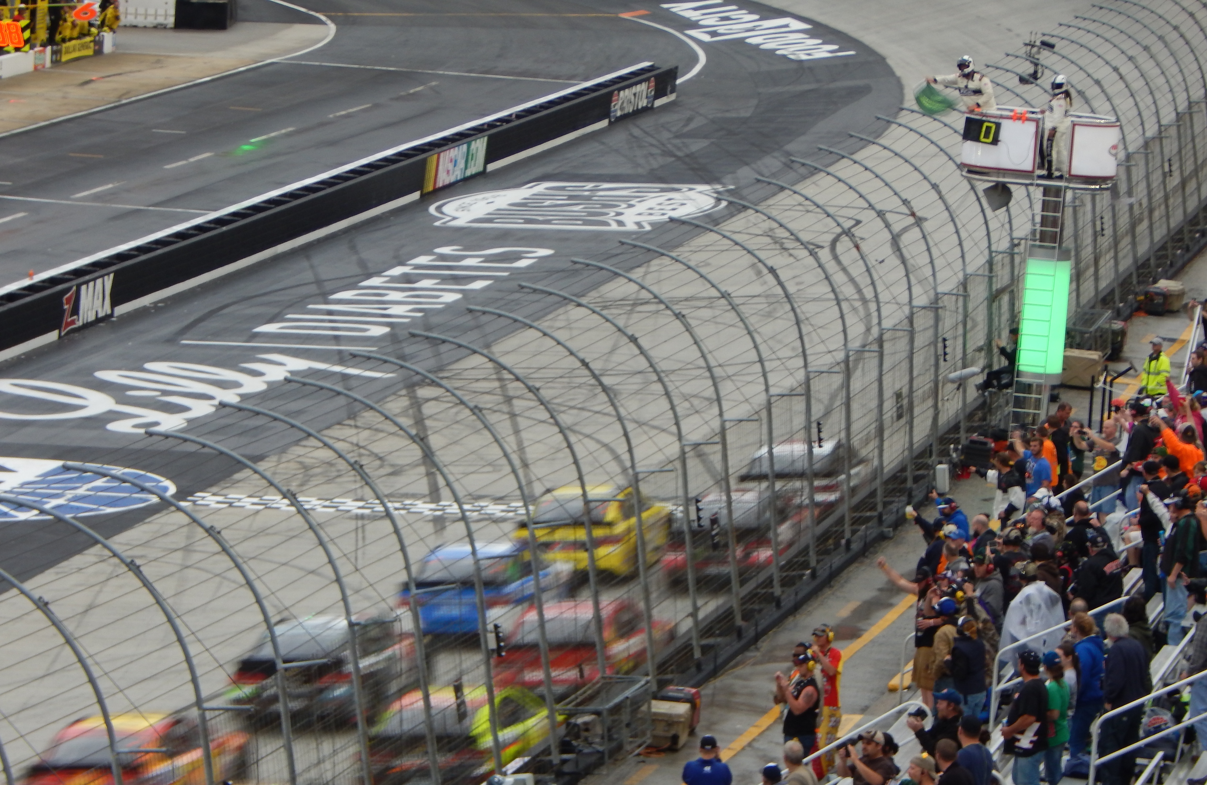 The race restarted after a three hour delay on lap 35.